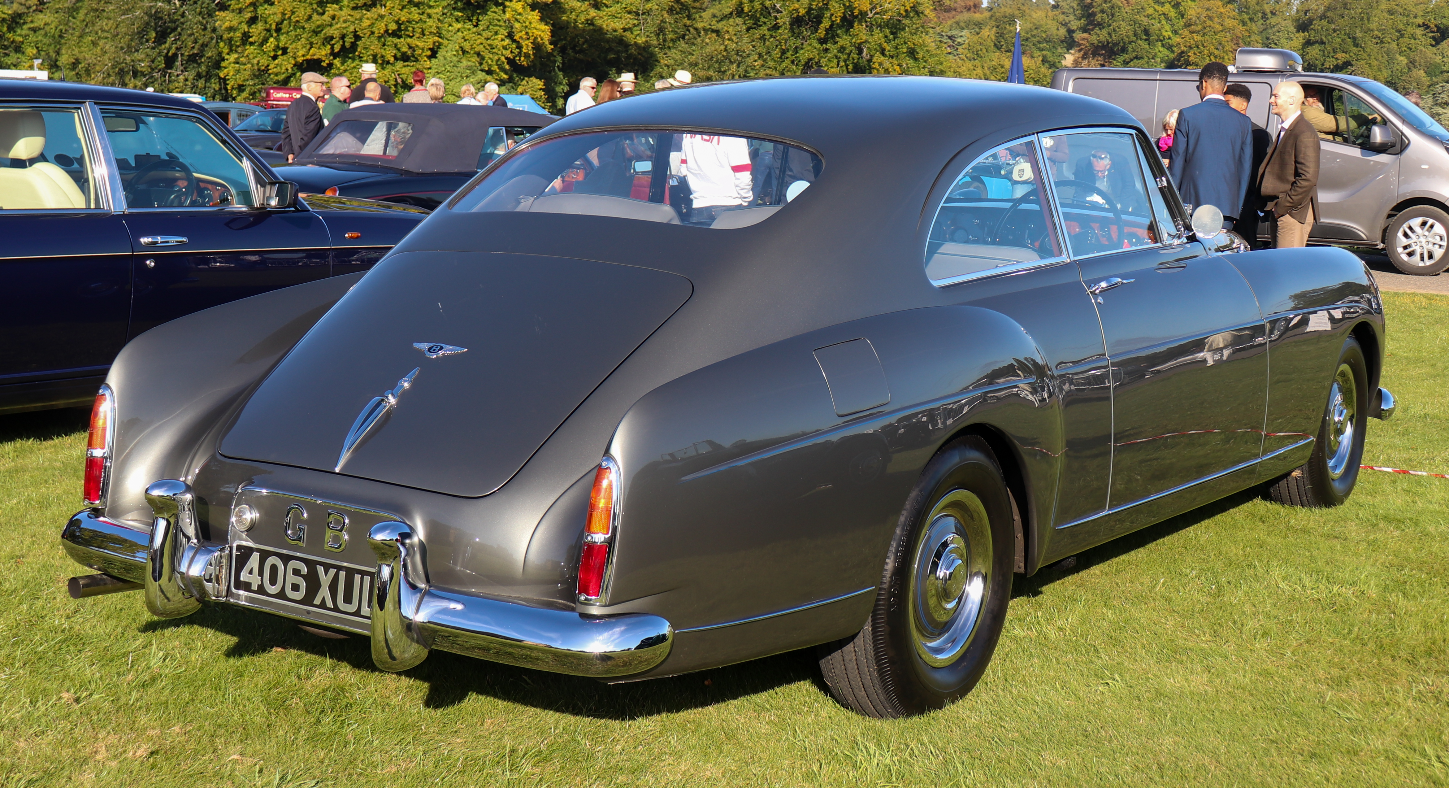 1957 Bentley S1 Continental Fastback by H. J. Mulliner 4.9 Rear Taken at the Salon Privé Concours d'Elegance Classic Car Motor Show 2019, Blenheim Palace